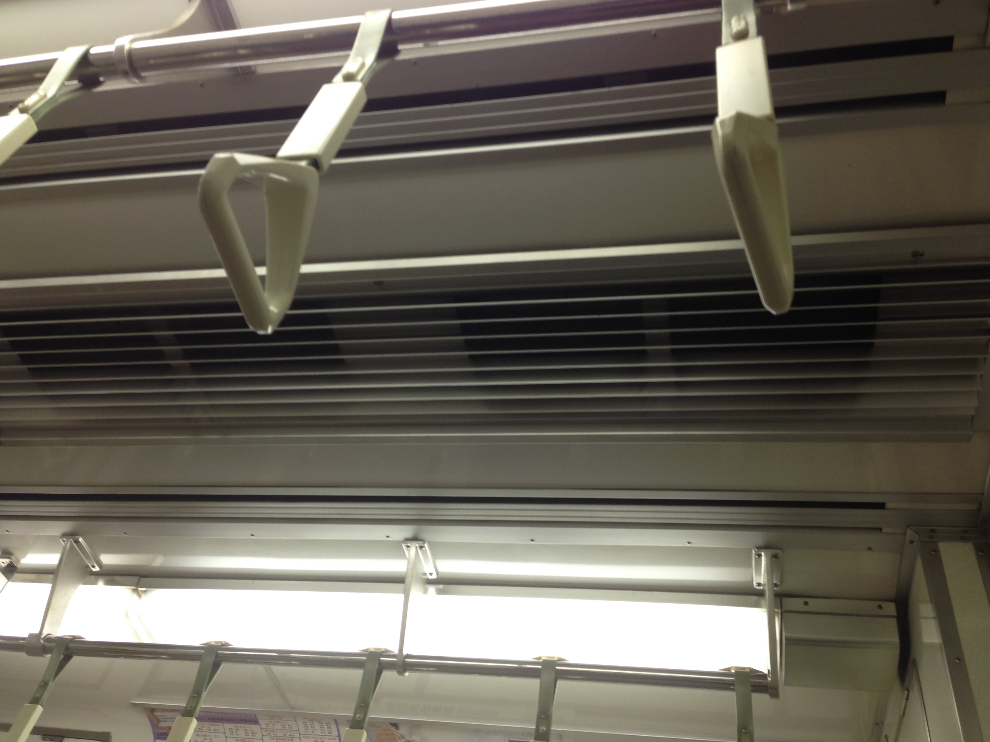 Kyoto subway 1303 ceiling